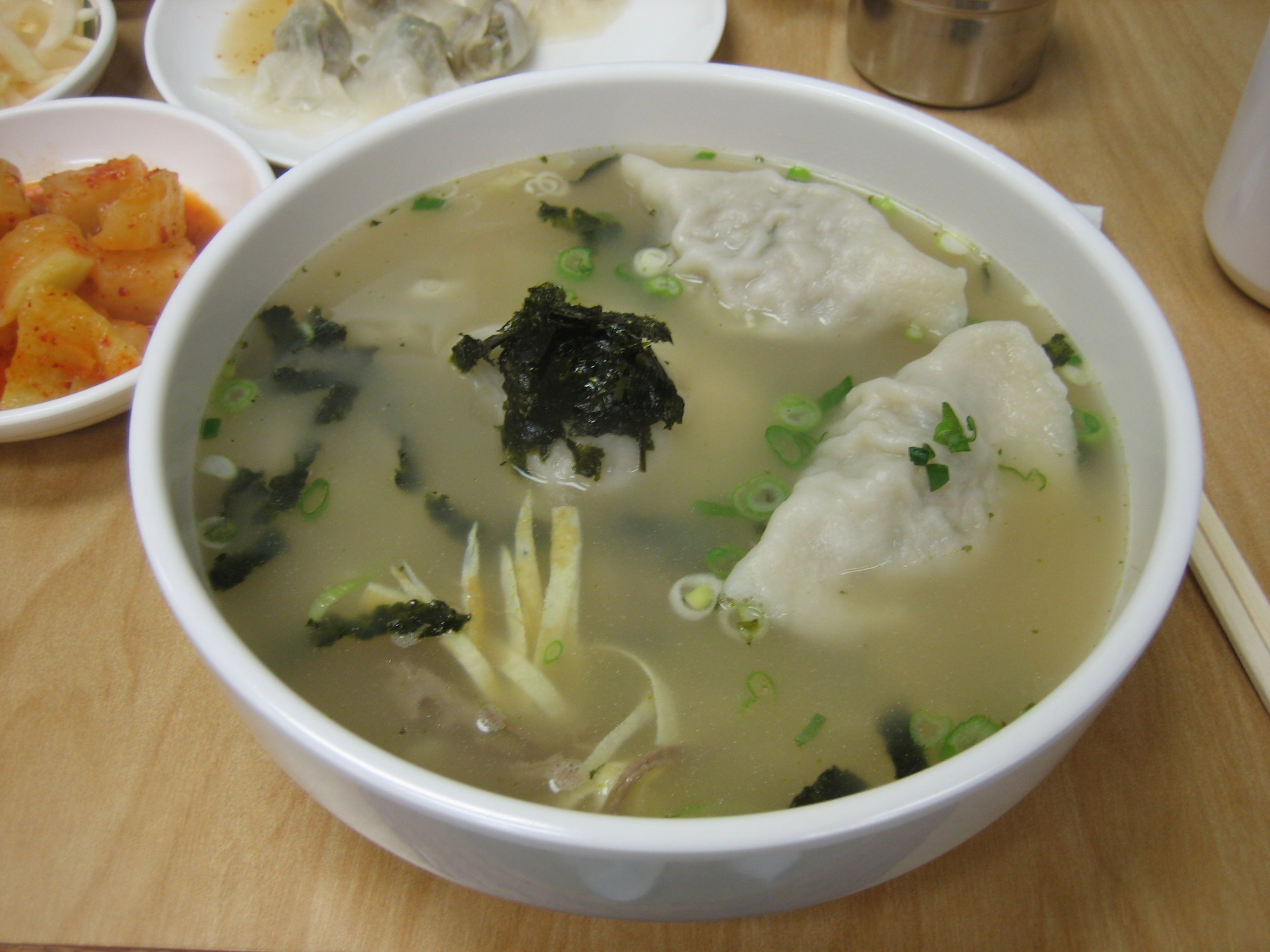 만두국, Mandukuk(Korean dumpling with soup)